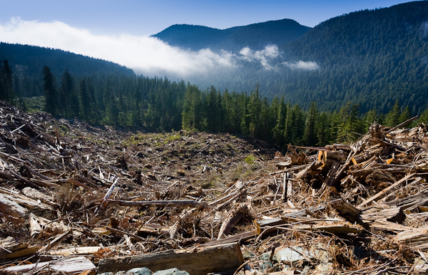 A sprawling clearcut of old-growth forest stretches down a hillside in the Upper Walbran Valley. 75% of Vancouver Islands old-growth forests have been logged including 90% of the valley bottoms.